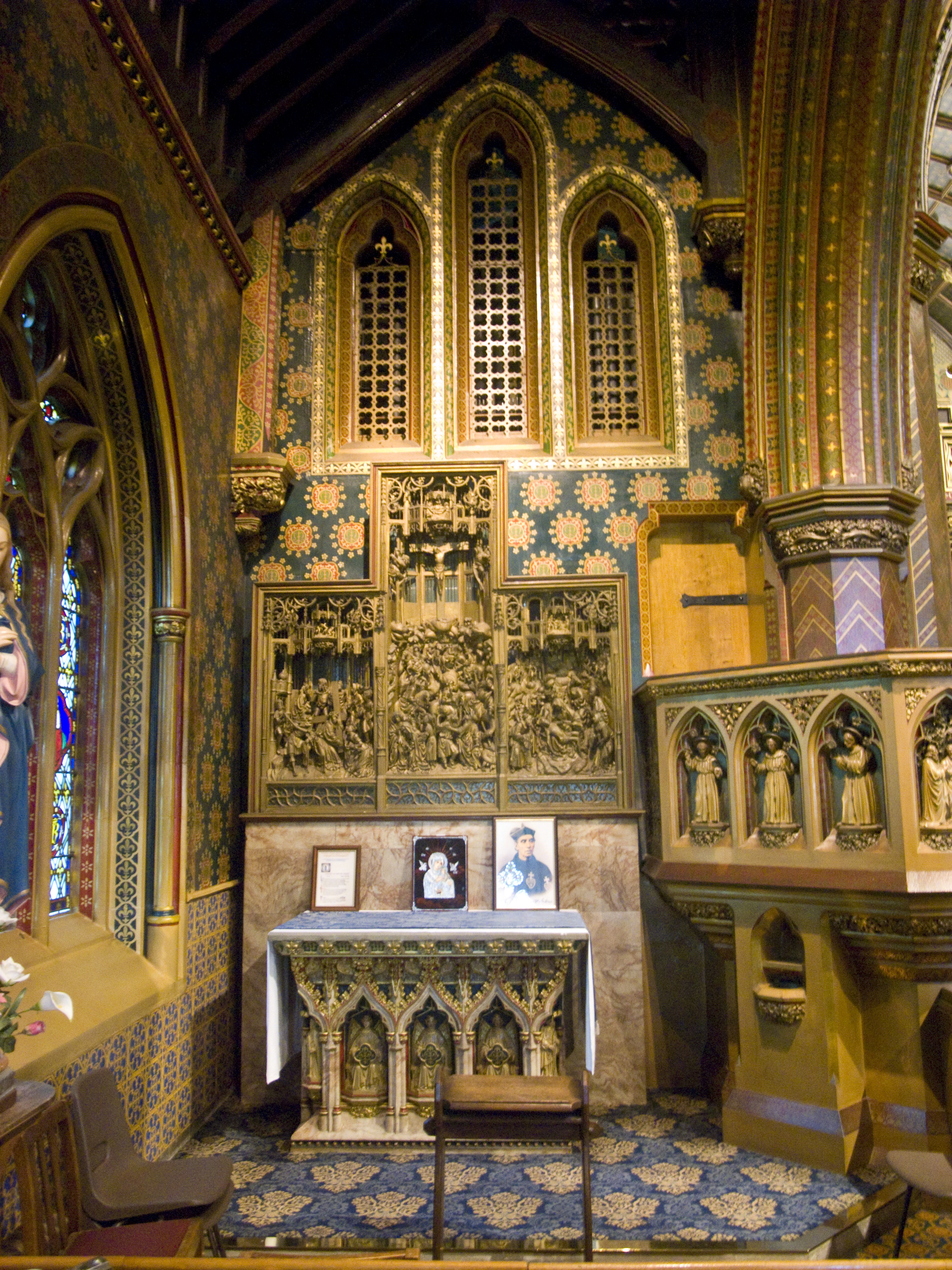 North-east chapel of St. Giles' Catholic Church, Cheadle, Staffordshire, England.